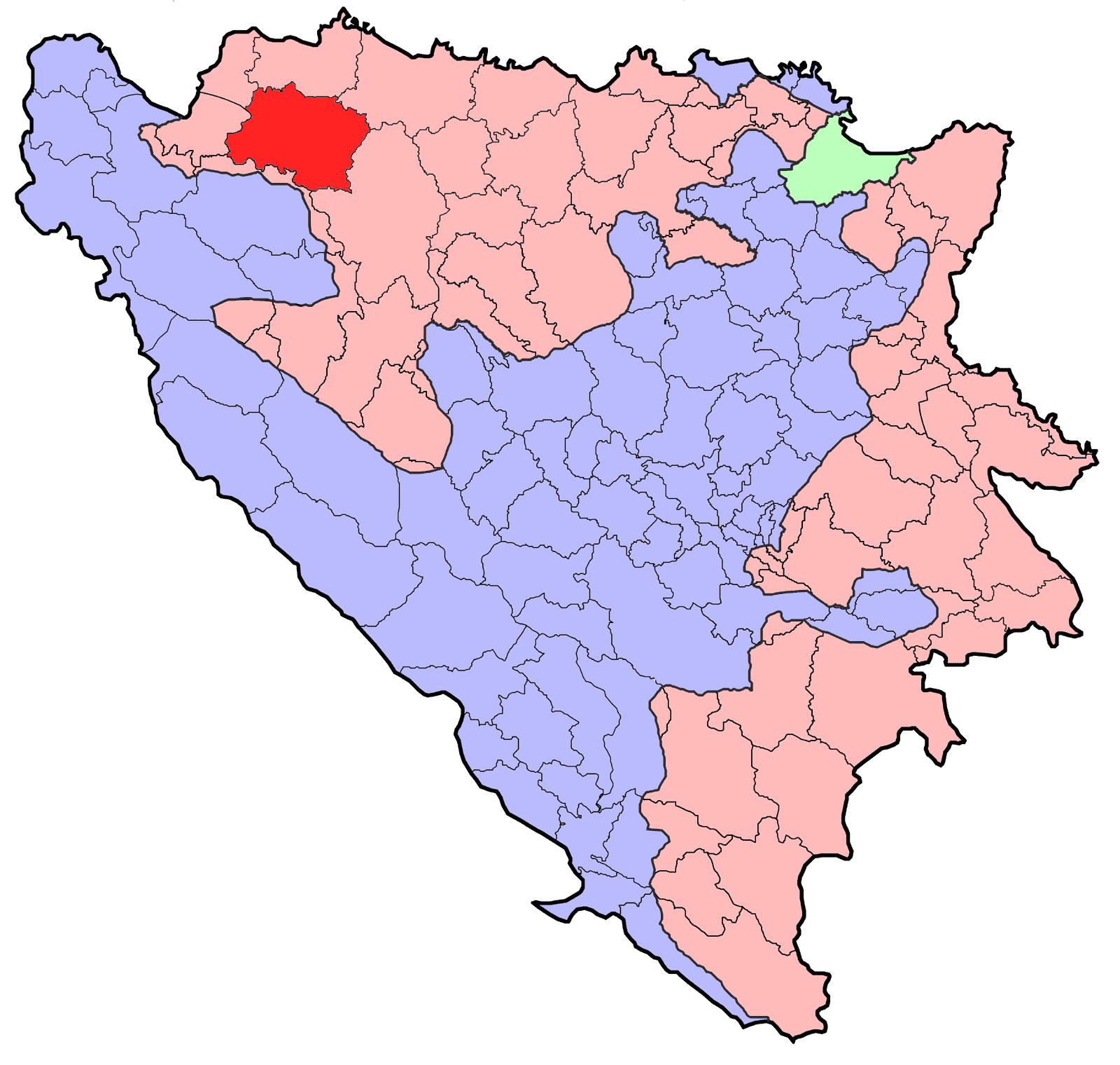 Prijedor municipality